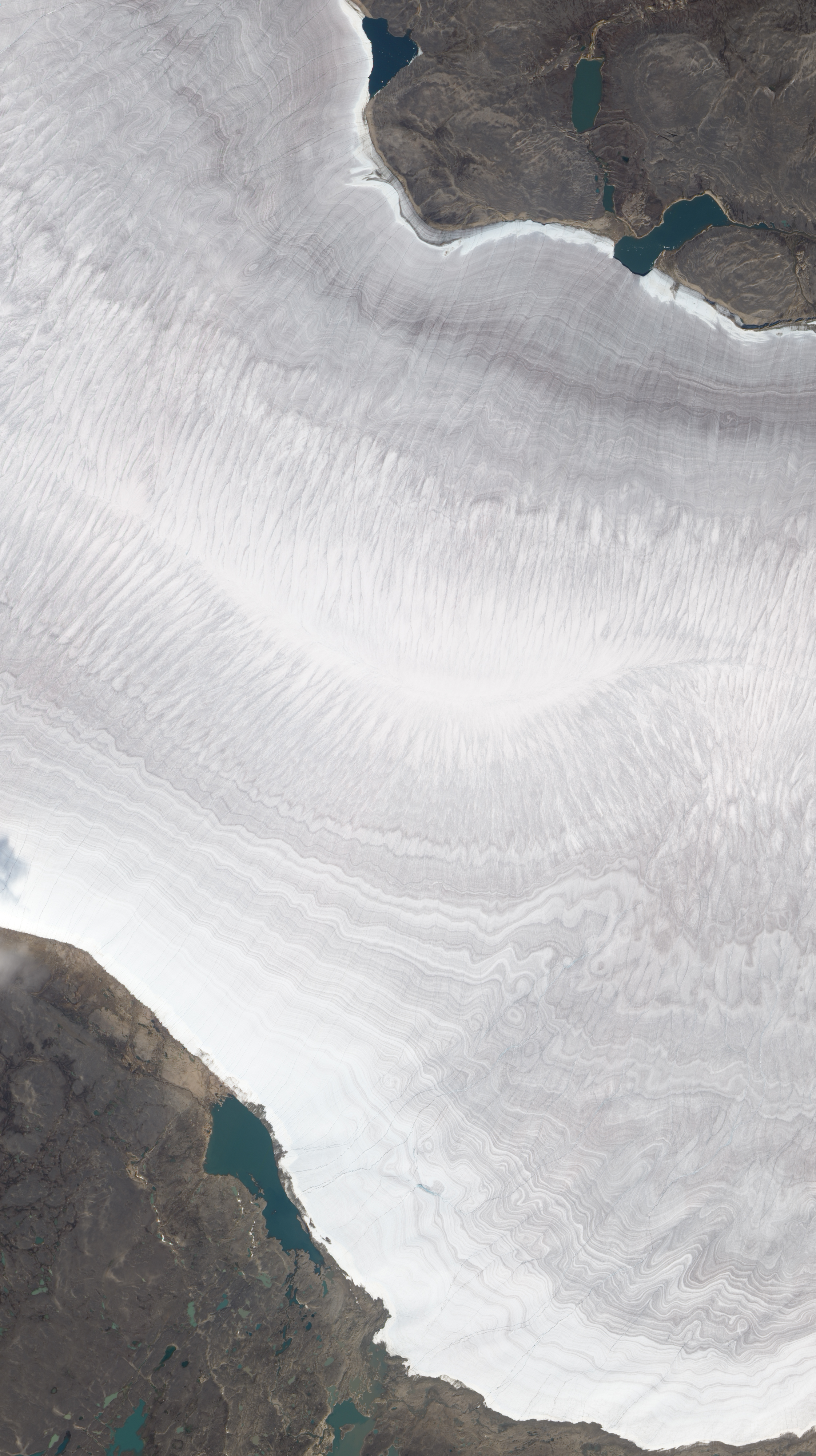 Natural-colour image of the Barnes Ice Cap, a bowling-pin-shaped glacier on Canada’s Baffin Island. The image shows a portion of the Barnes Ice Cap near its south-eastern end. Gee Lake sits immediately off the glacier. Resembling growth lines on a clamshell, striations run roughly east-west on the glacier surface. Rather than appearing pristine white, the ice and snow is banded with dust layers spanning time periods that dwarf a human life. By studying ice cores containing such dust layers, climatologists can find clues to ancient climates. Ted Scambos of the National Snow and Ice Data Center observes that although the ice cap is essentially flat, it appears to undulate, thanks to ridges cut by melt streams running off the glacier. In this summertime shot, the glacier is mostly snow-free except for a band of snow along the edge near Gee Lake. As winter returns, snow will once again cover the glacier, the surrounding land, and the lake.